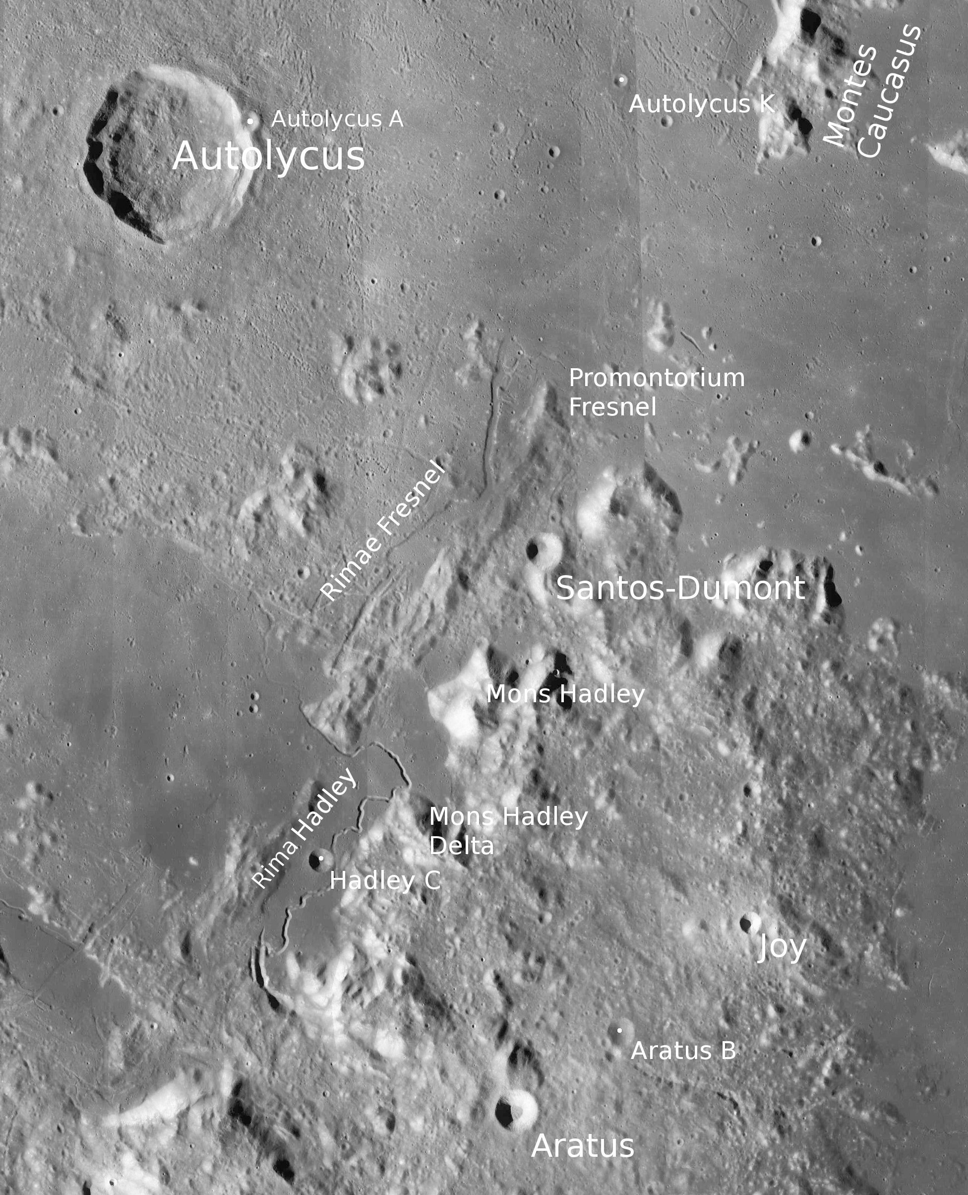 Crater Autolycus with northern part of Montes Apenninus ans Apollo 15 landing site (detail of LRO - WAC global moon mosaic)